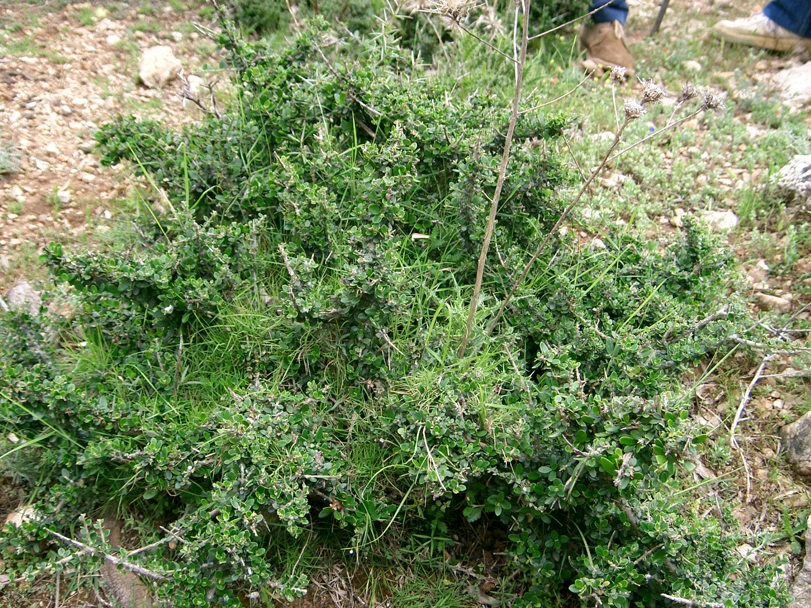 Ullastre, Olea europaea subsp. sylvestris. Photograph from Ca's Deco, Fornalutx, Mallorca.